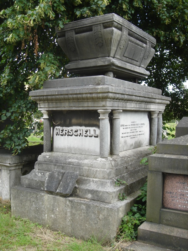 Ridley Haim Herschell funerary monument, Kensal Green Cemetery, London